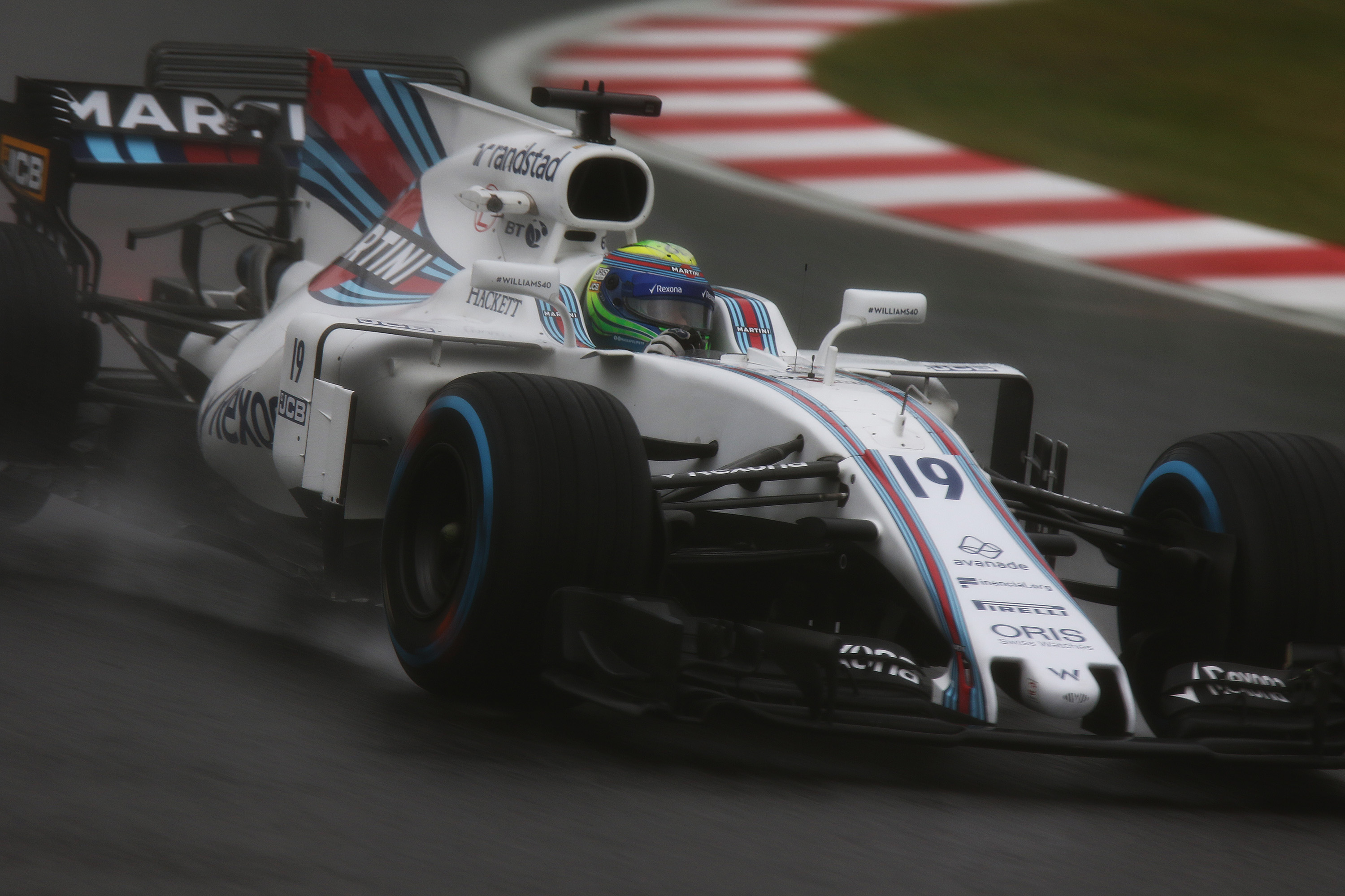 2017.10.6 F1 Rd.16 Japanese GP SUZUKA (FP2) Williams Martini Racing (FW40) 19 フェリペ・マッサ [7D2_1183ks]